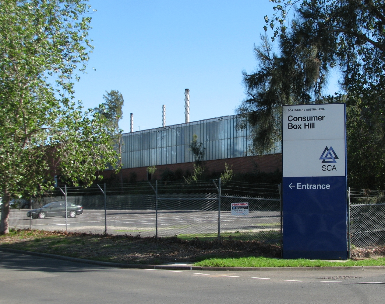 SCA Hygiene Australasia, Box Hill South, Victoria, Australia